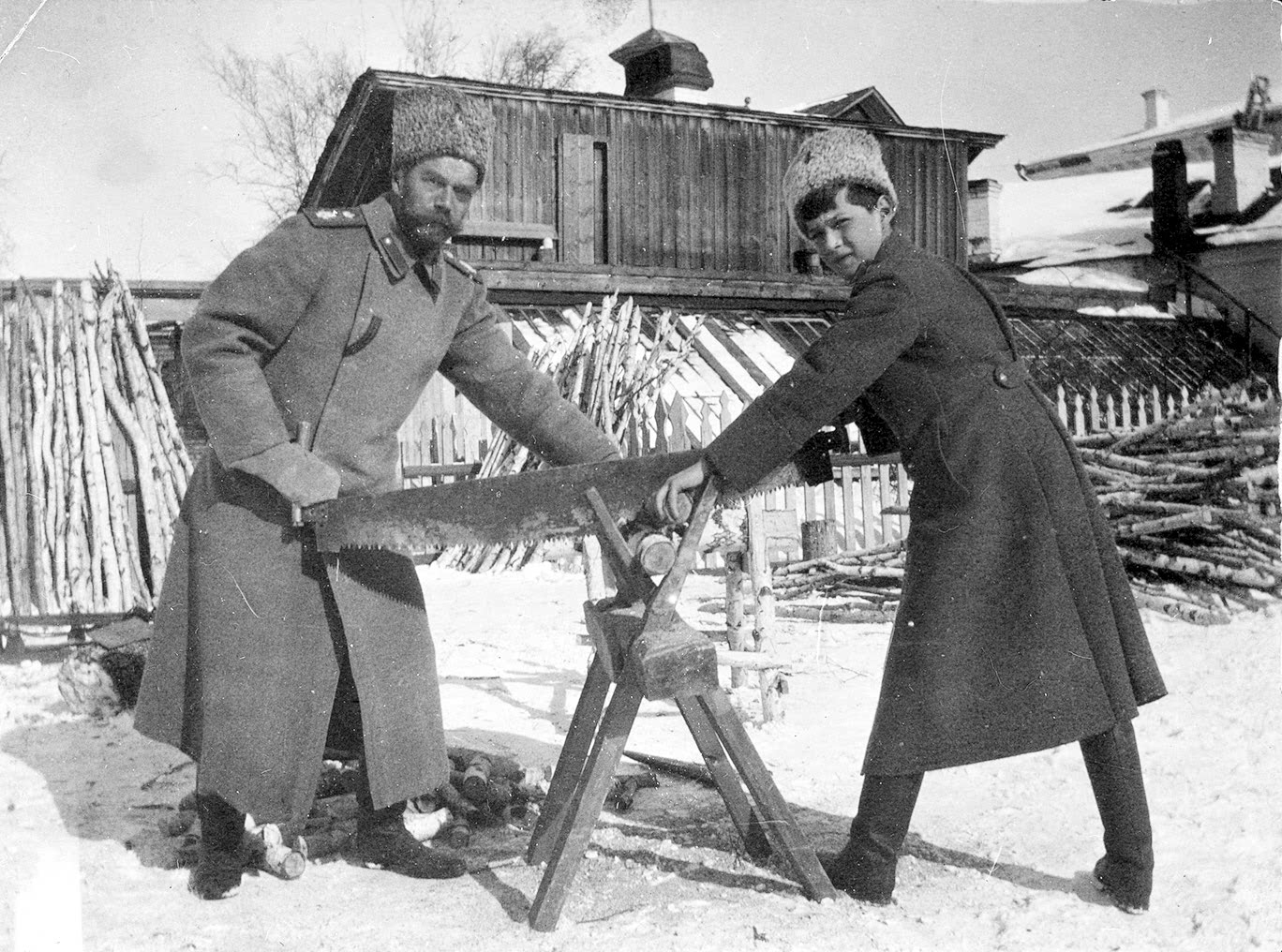 This photo of Tsarevich Alexei Nikolaevich and Tsar Nicholas II sawing wood at Tobolsk in 1917 is from the Beinecke Library. It can be used if credit is provided to the library. The correct credit line is Romanov Collection, General Collection, Beinecke Rare Book and Manuscript Library, Yale University.